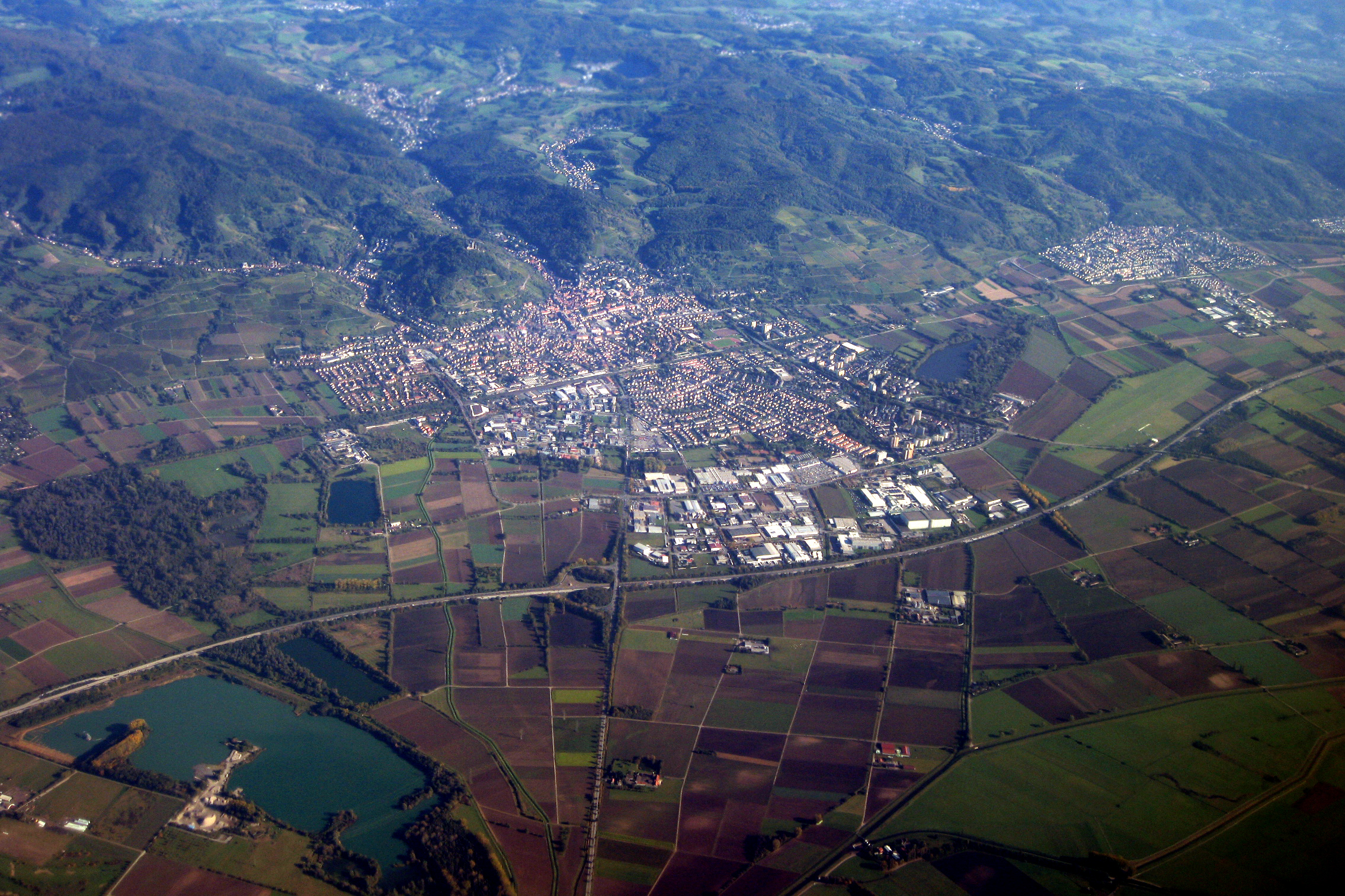 Heppenheim, aerial photography from West to East